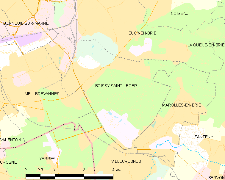 Map of French municipality Boissy-Saint-Léger